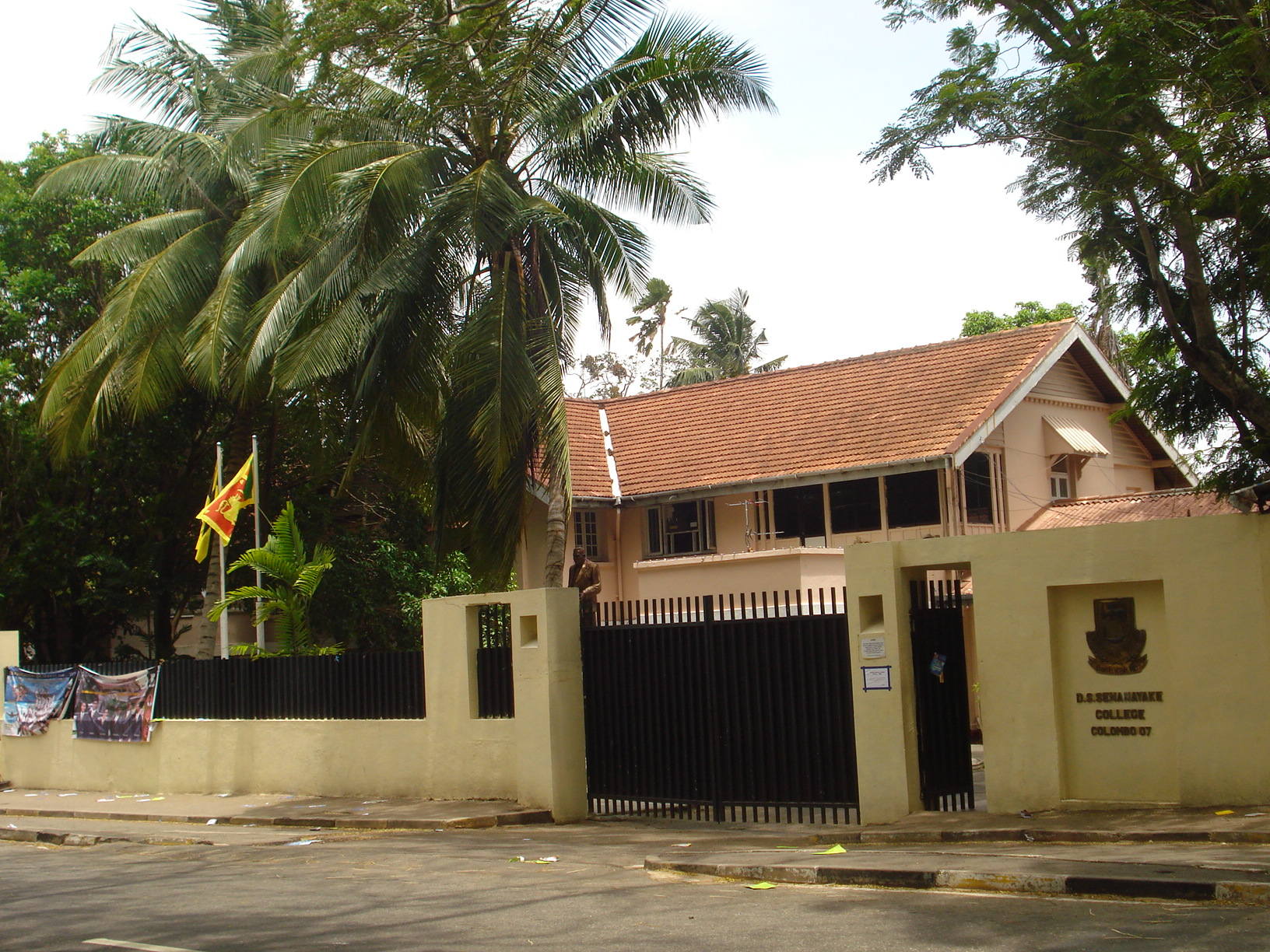 The main entrance of D.S. Senanayake College,Colombo 07, Sri Lanka